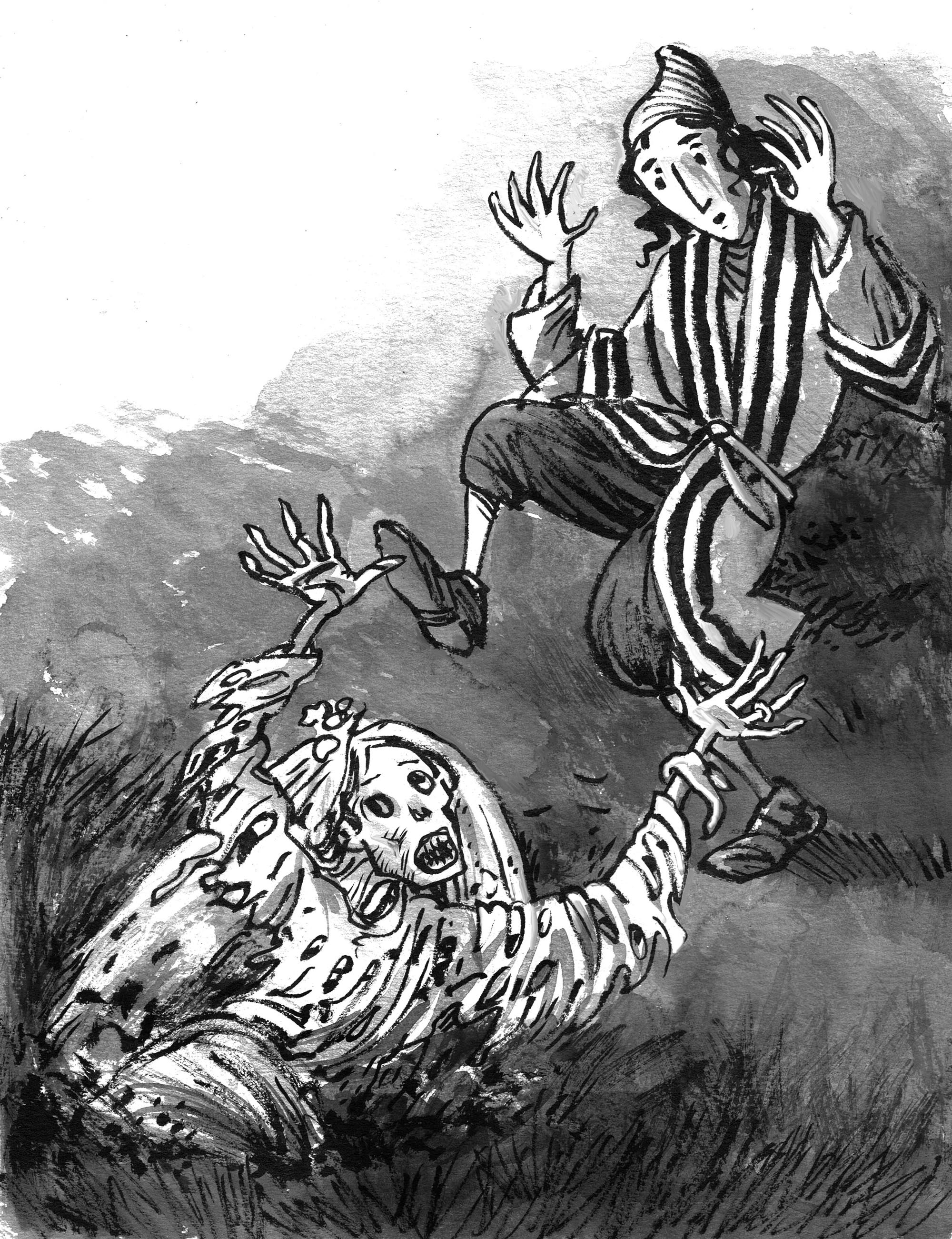 The Death-Bride, Jewish legend